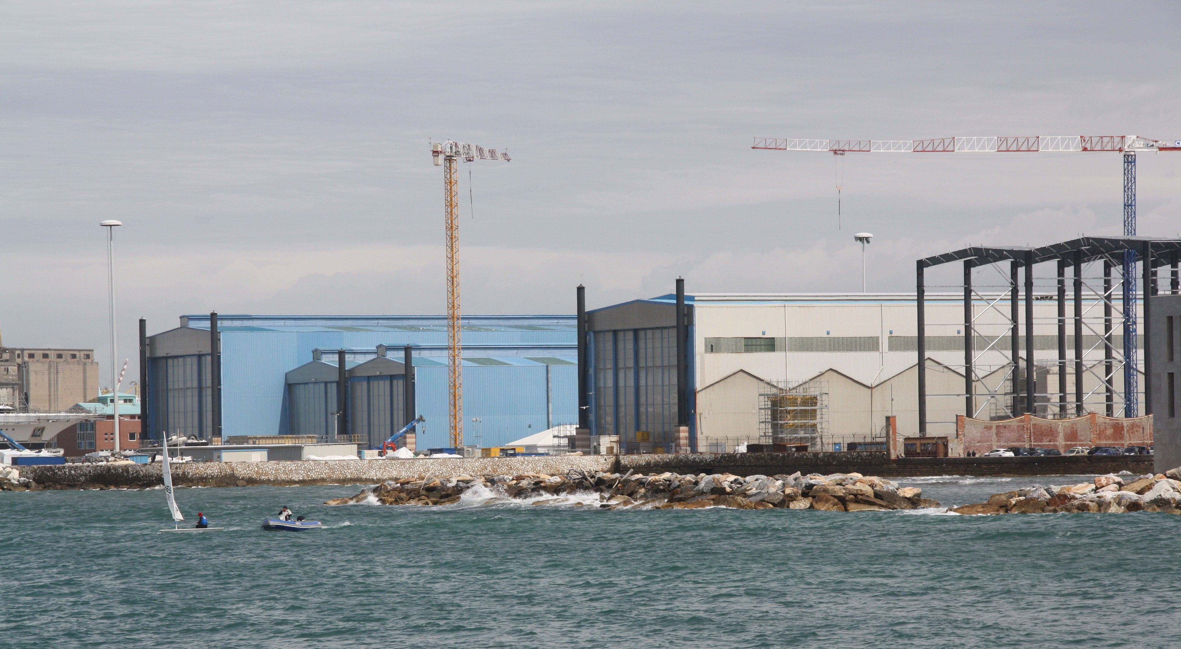 Italy, Port of Livorno. Benetti Livorno shipyard.